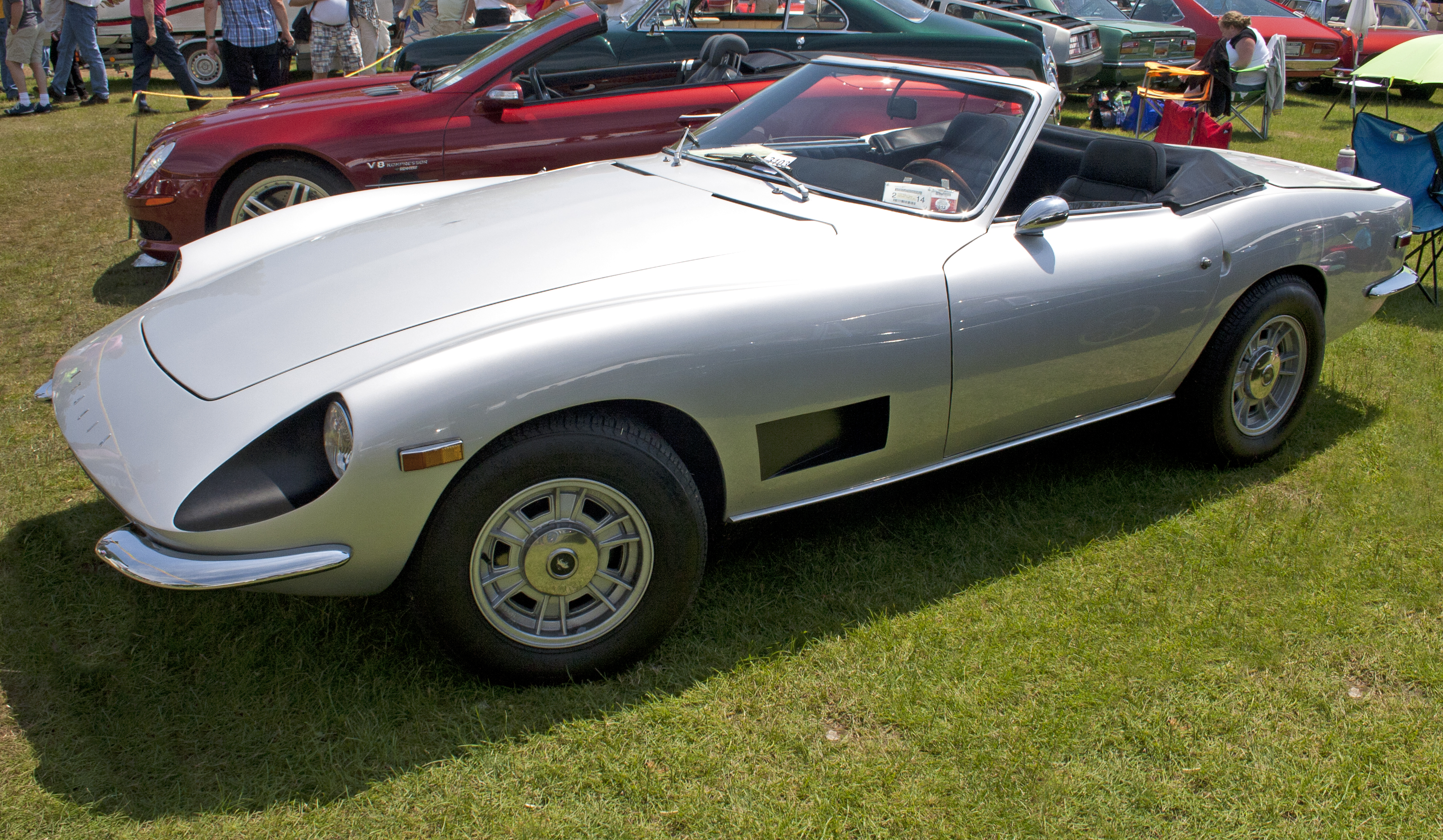 1972 Intermeccanica Italia Spyder at the 2012 Greenwich Concours d'Elegance.